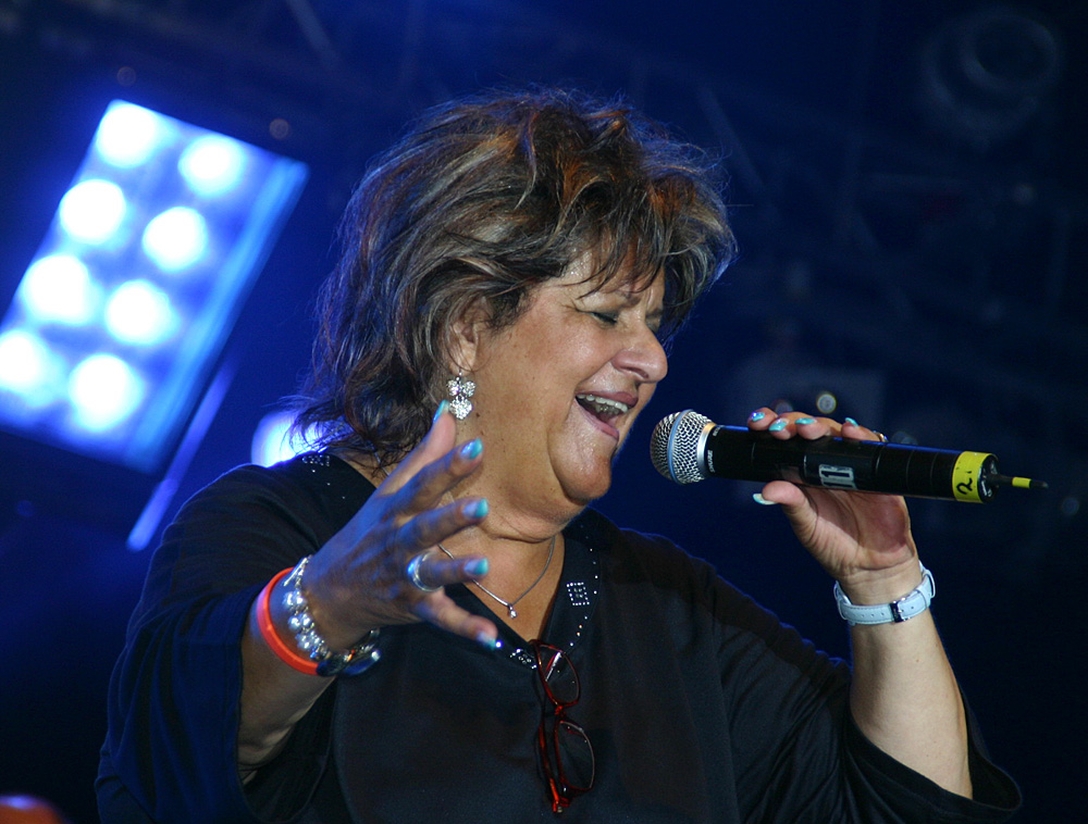 Joy Fleming, German jazz and blues singer, Medienfest Bonn